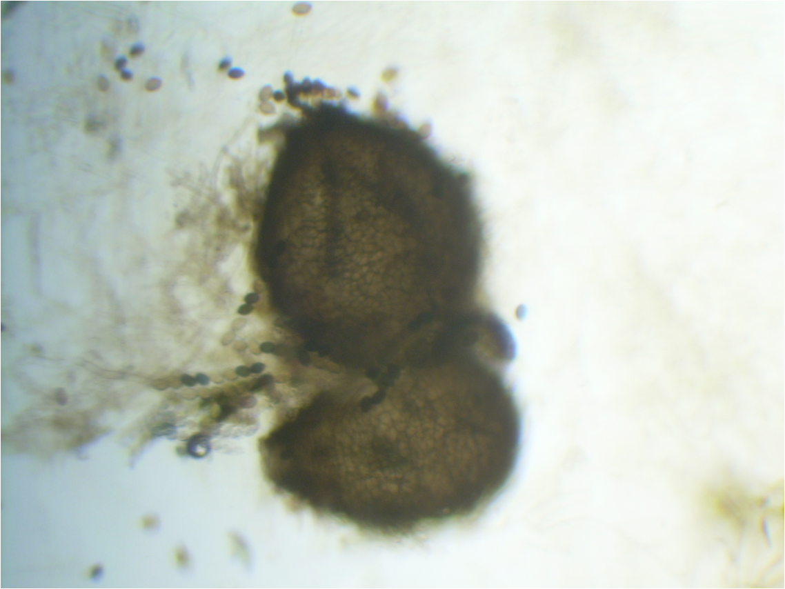 Sordaria fimicola perithecium magnified 40X. This perithecium is the result of a mating cross between wild-type (dark) and mutant (tan) fungi, which is why the asci contain different-colored ascospores. Identified using Hanlin, R. T. (2001) Illustrated Genera of Ascomycetes, Volume 1. APS Press: St. Paul, MN; pp. 132–3 ISBN 0-89054-107-8. Obtained from a Sordaria Genetics BioKit® supplied by Carolina Biological Supplies Company [1].